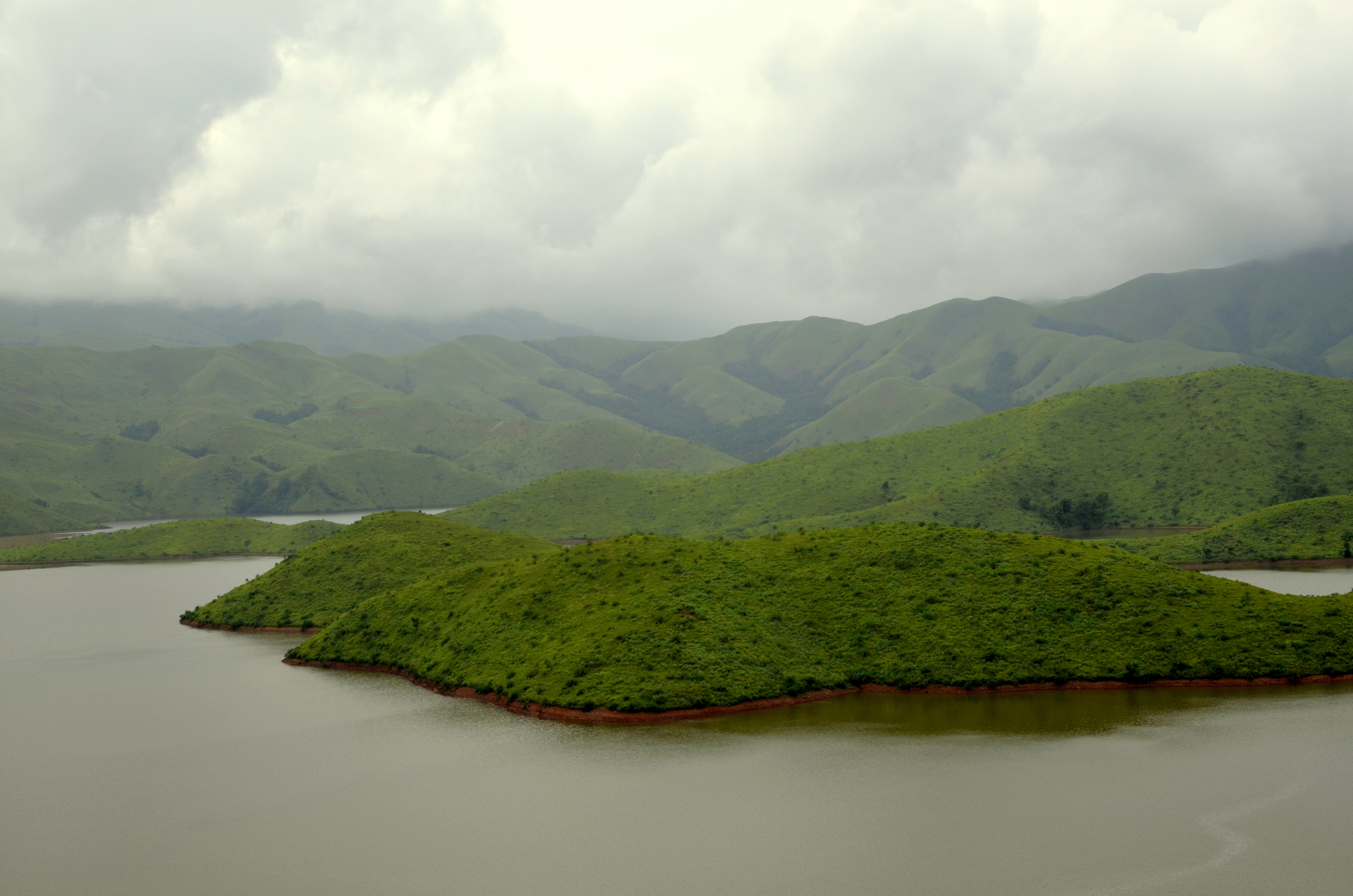 Mist, meadows and mountains.